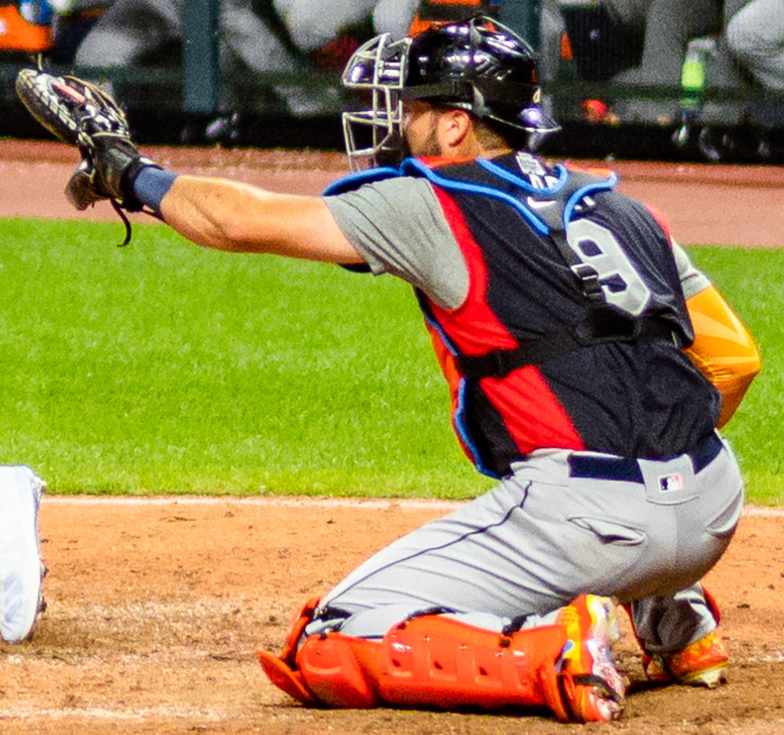 Jarren Duran bats and Joey Bart catches during the 2019 All-Star Futures Game at Progressive Field in Cleveland